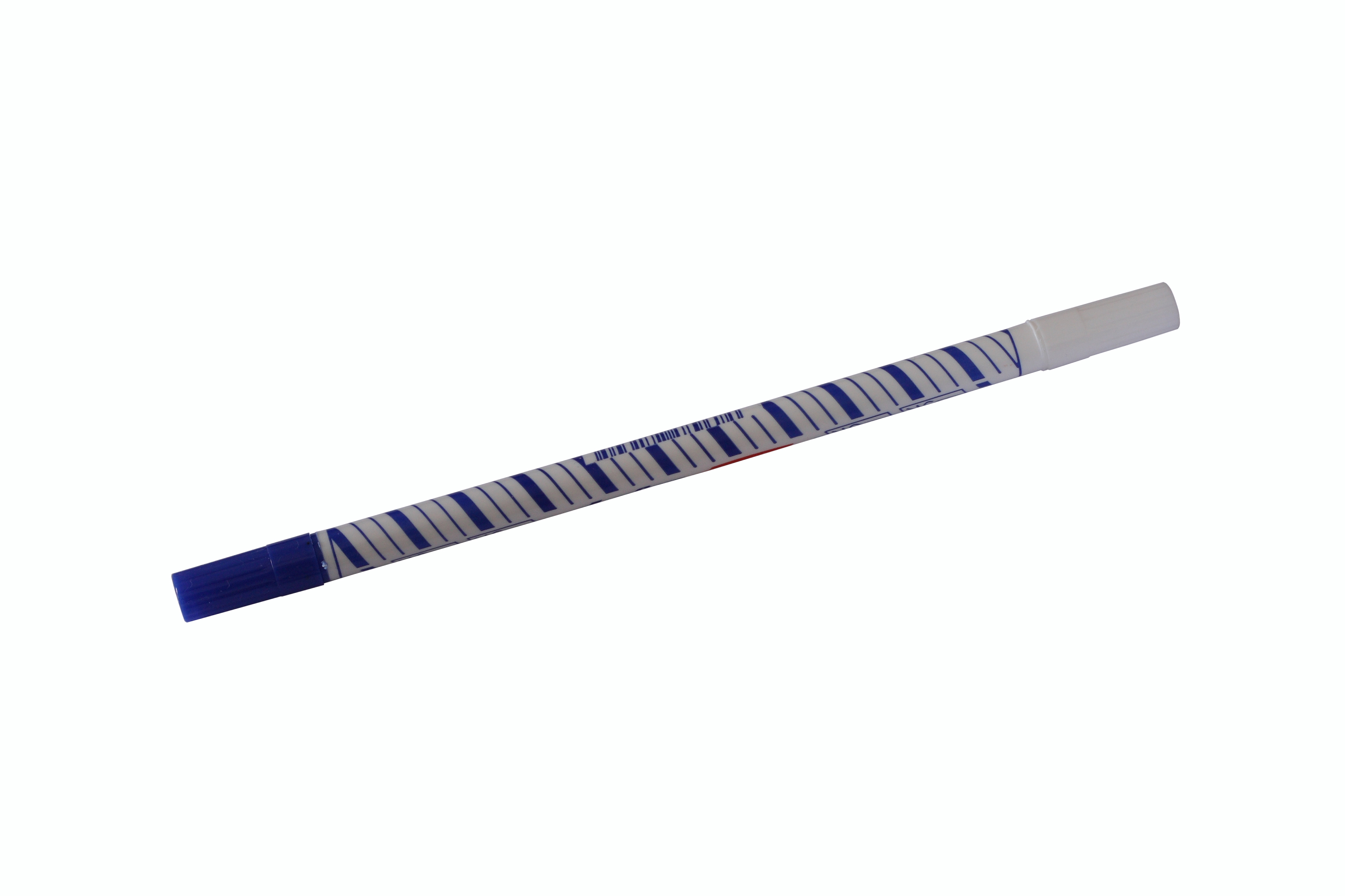 An ink eraser.